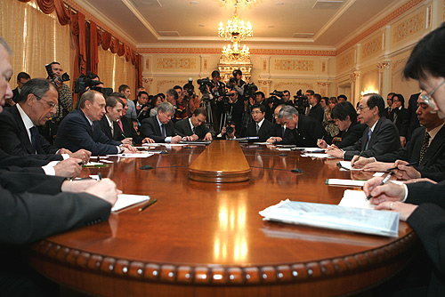 NOVO-OGARYOVO. Russian-Japanese talks.